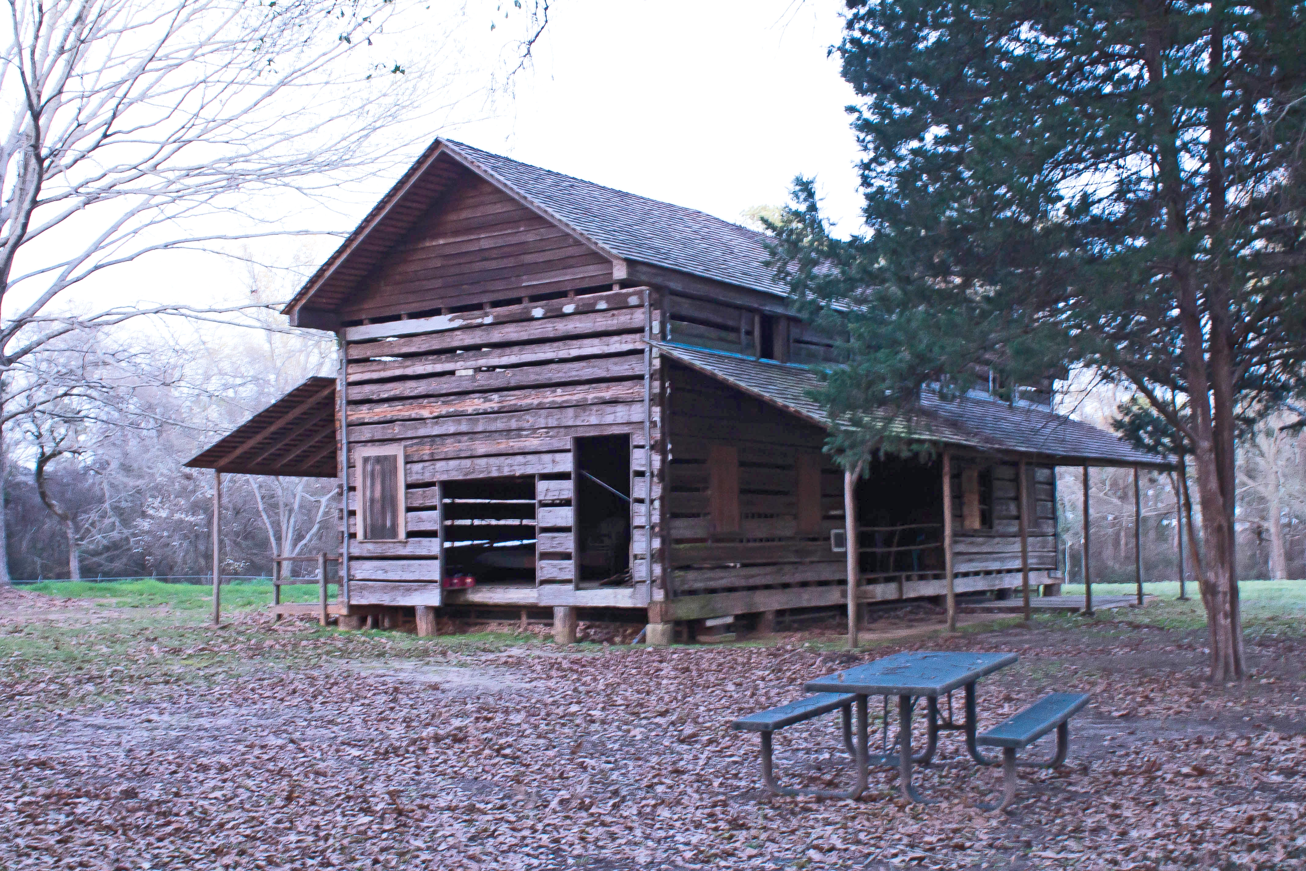 The Oliphint House in Milam, Texas was built in 1818 on the Sabine River crossing of El Camino Real de los Tejas.